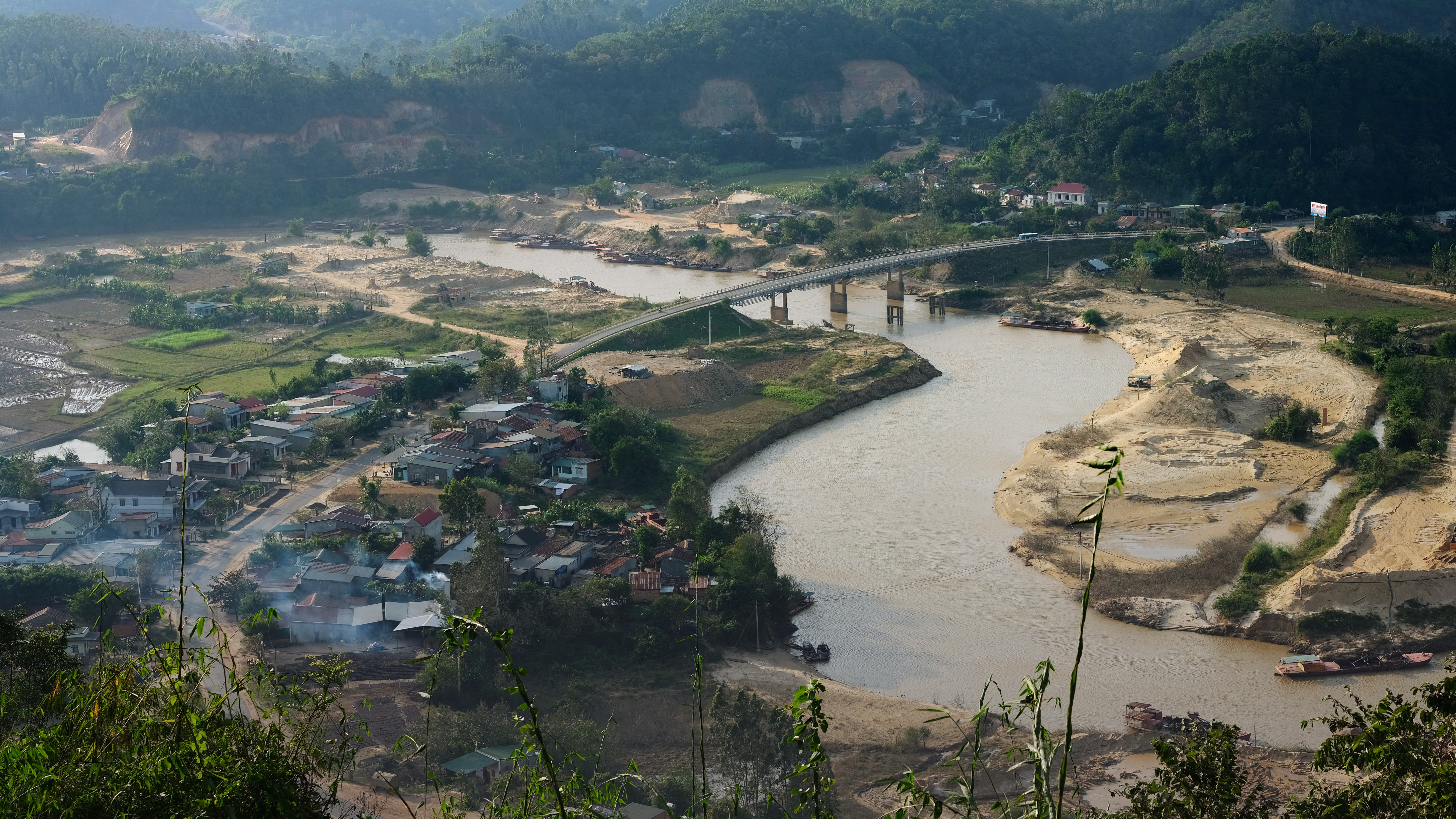 Hòa Hiệp commune of Cư Kuin district, Đắk Lắk province, Vietnam.